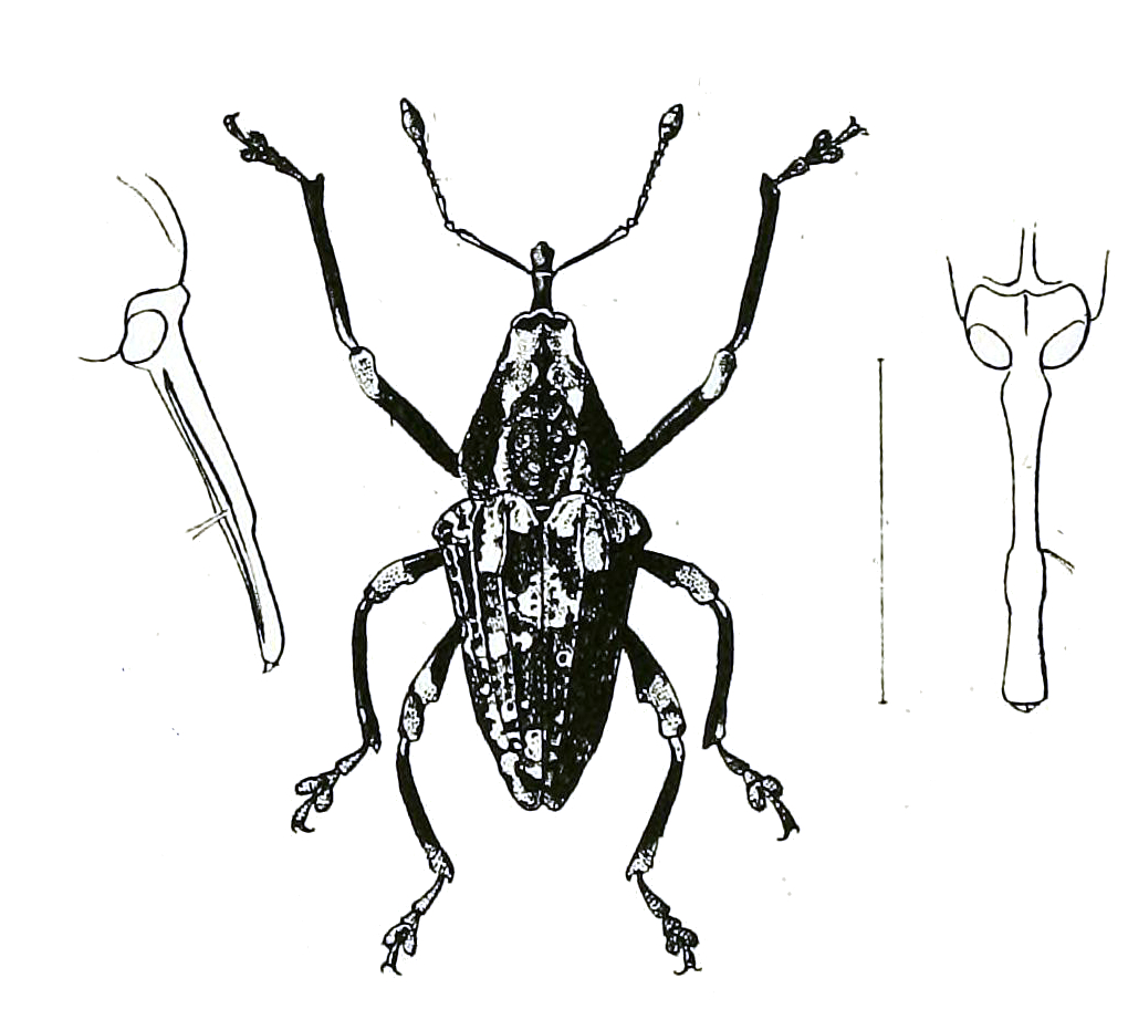 Orphanistes eustictus